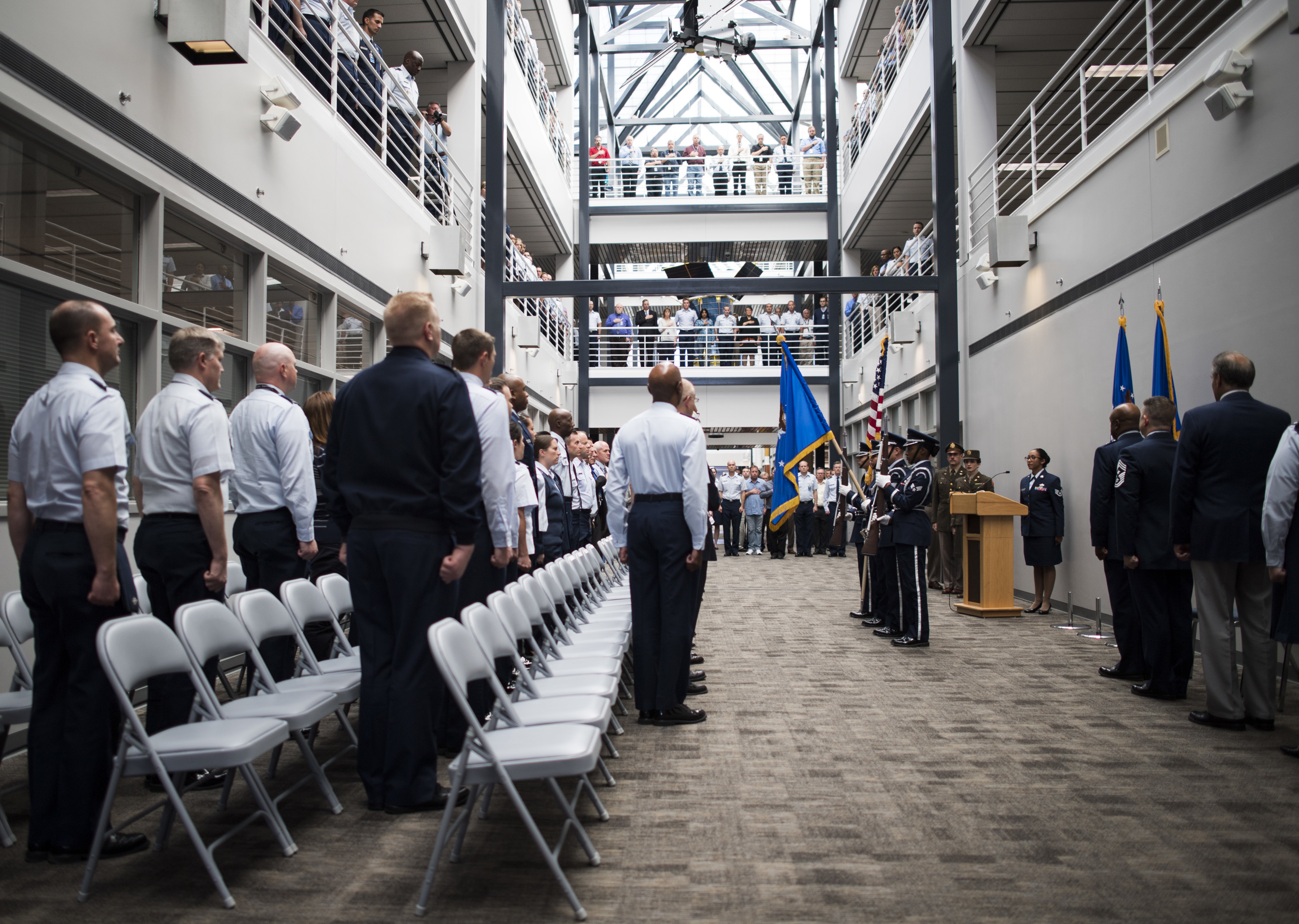 Members of the Peterson Air Force Base Honor Guard posting the Colors Sept 16, 2016 at the Air Force birthday ceremony, hosted by Air Force Space Command, Peterson Air Force Base, Co. More than 125 members from Air Force Space Command came out to the Air Force Birthday ceremony. (U.S. Air Force Photo/Tech. Sgt. David Salanitri) Unit: Air Force Space Command